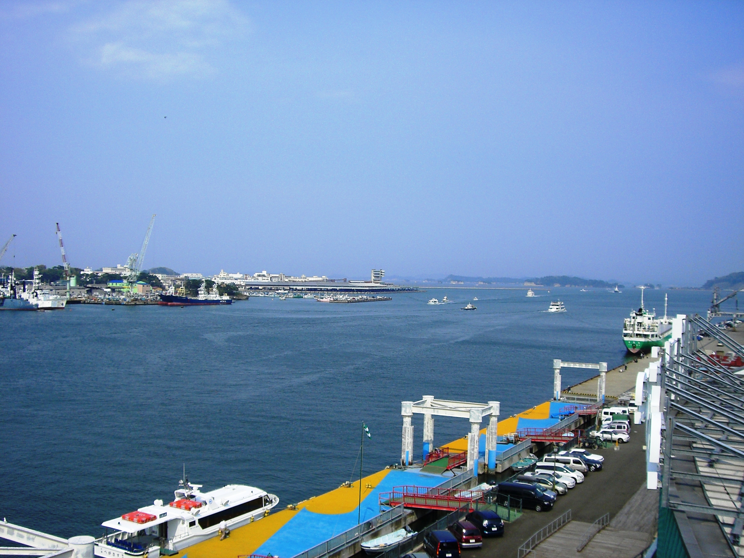 Siogama port in Miyagi prefecture.